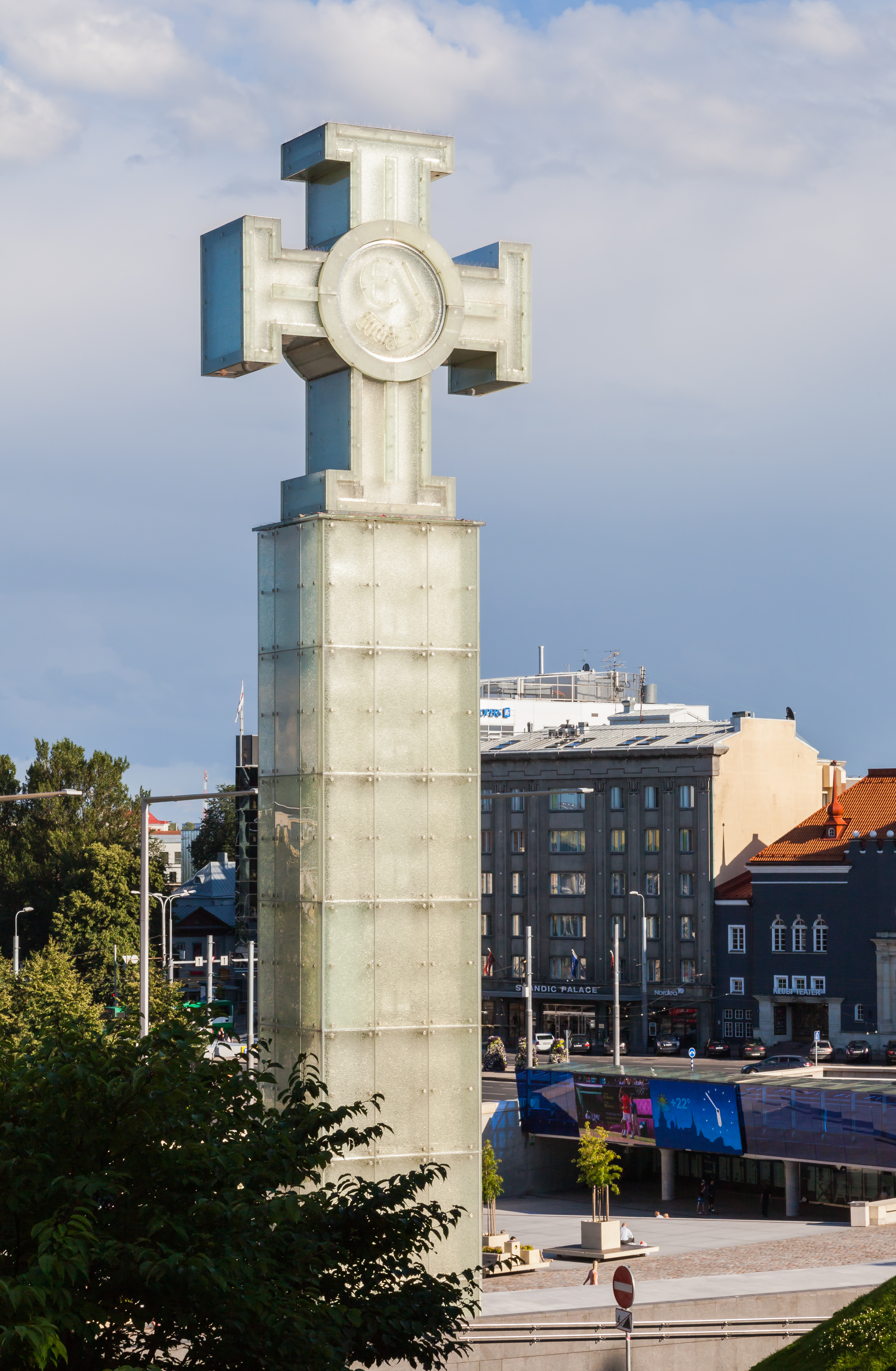 Independence War Victory Column, Tallinn, Estonia